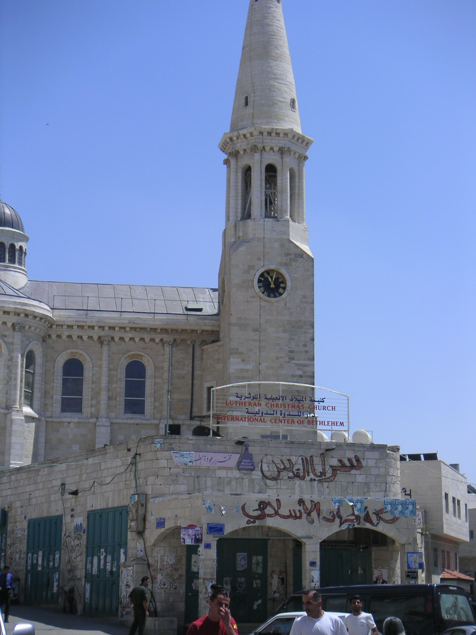 Photo: Soman